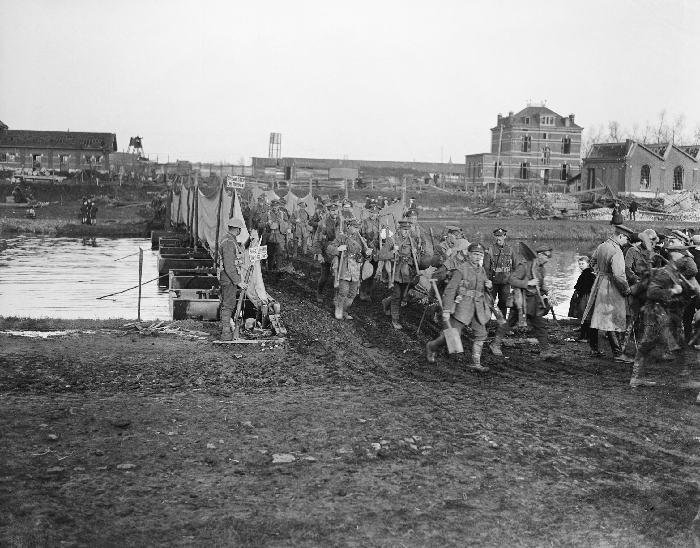 The Hundred Days Offensive, August-november 1918 Troops of the 1/4th Battalion, South Lancashire Regiment (Pioneer Battalion of the 55th Division) crossing a pontoon bridge over the Scheldt river at Tournai, 9 November 1918.